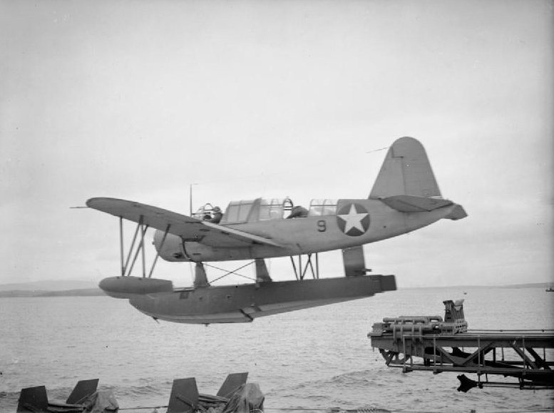 A U.S. Navy Vought OS2U Kingfisher just leaving the catapult on board the battleship USS South Dakota (BB-57) at Scapa Flow, Scotland (UK) whilst the ship operated with elements of the British Home Fleet.